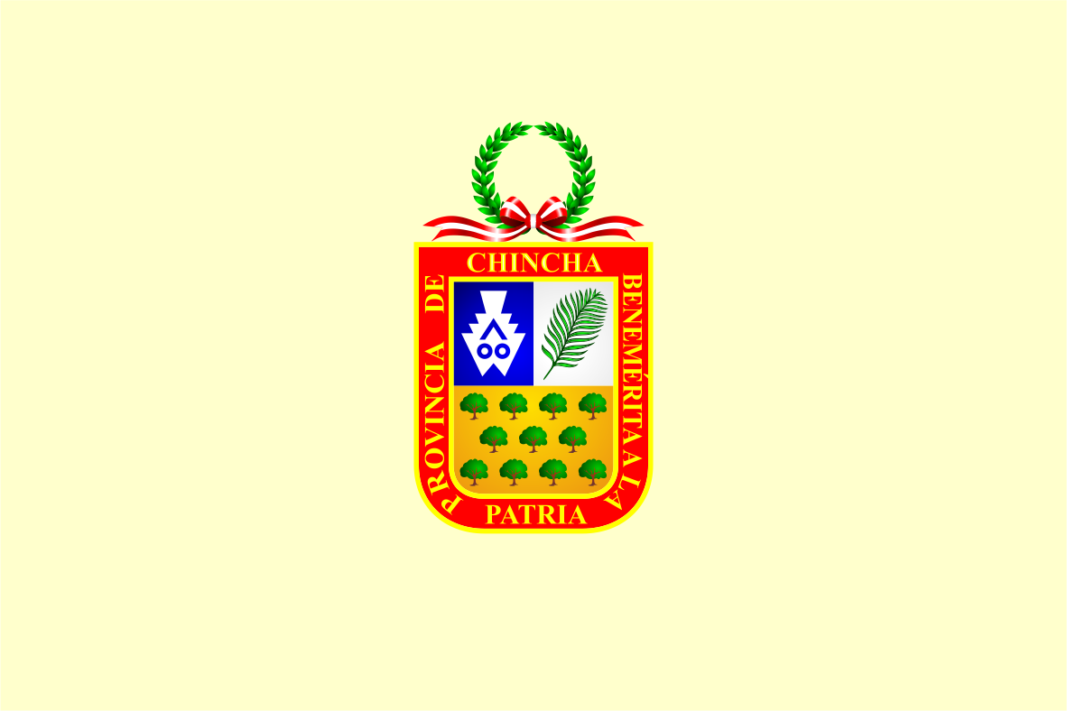 High Chincha District - Province of Chincha - Pisco Region